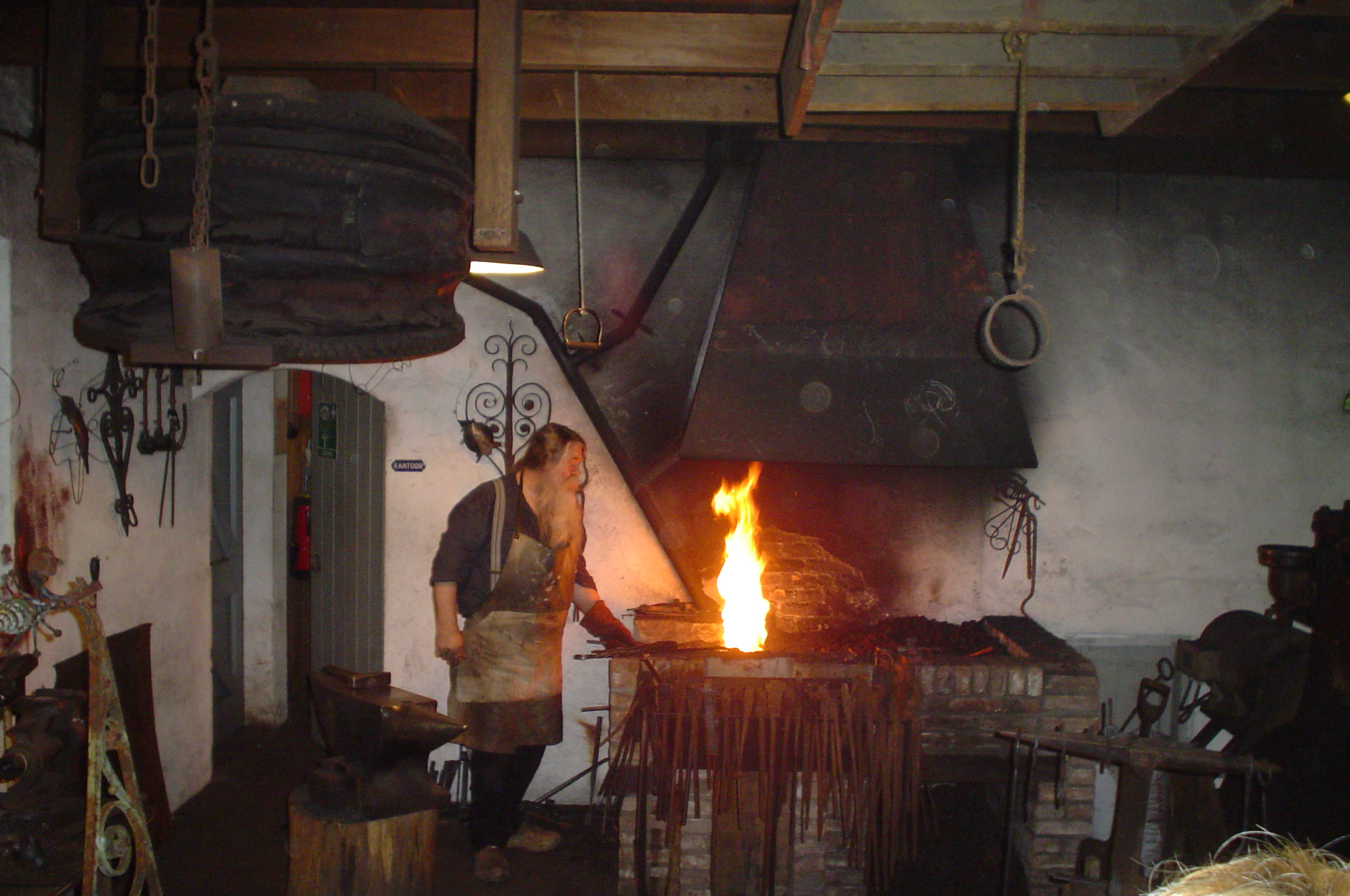 Blacksmith in open air museum Arnhem (The Netherlands)